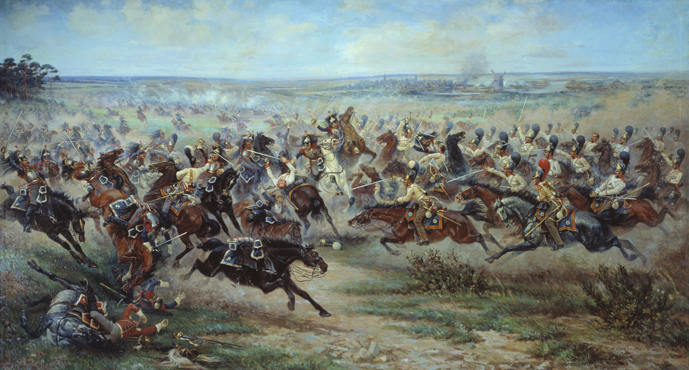 Viktor Mazurovsky (1859-1944). A Charge of the Russian Leib Guard on 2 June 1807. Painted in 1912.